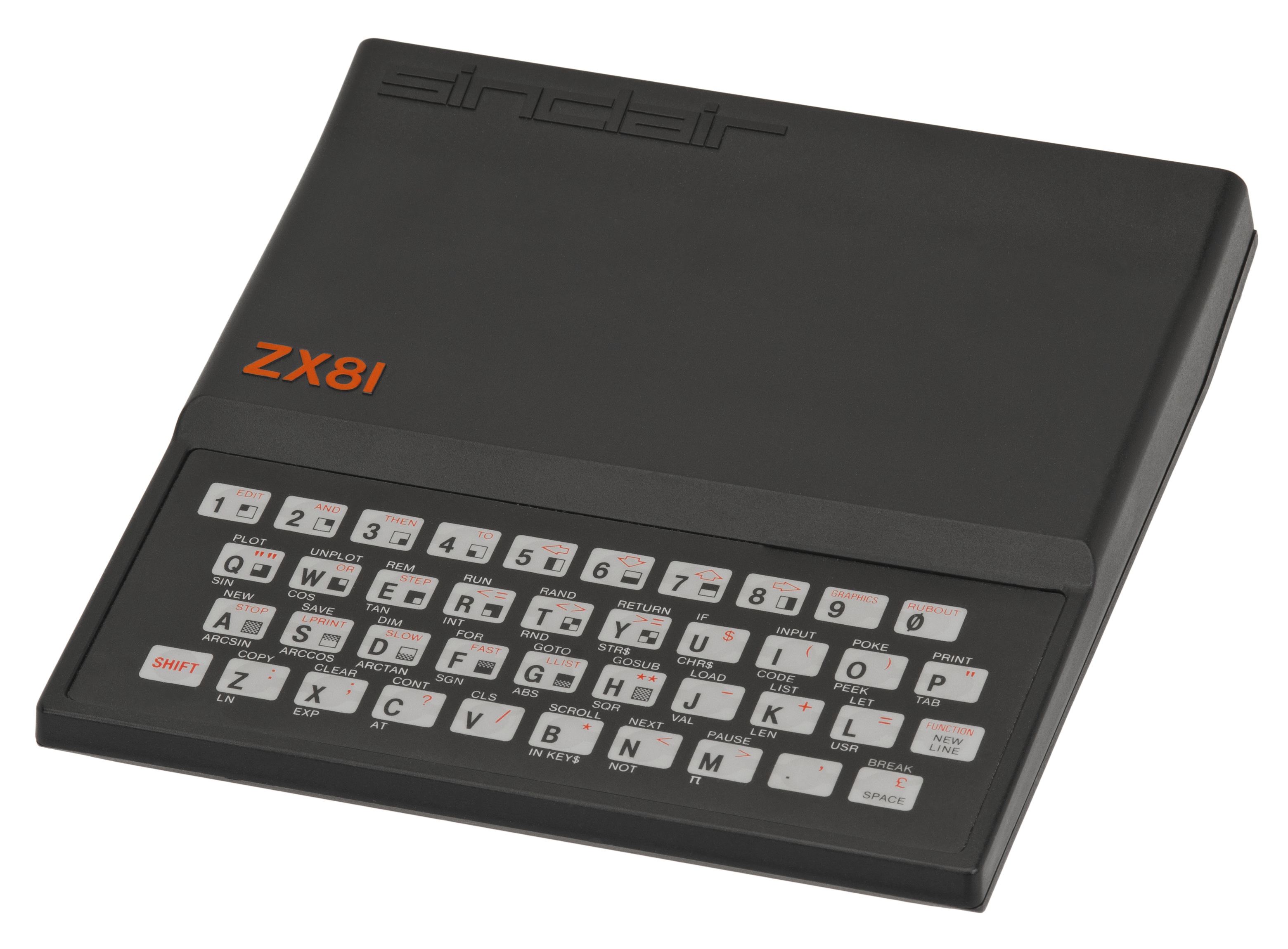 The Sinclair ZX81, a hobbyist home computer released in the UK in 1981.